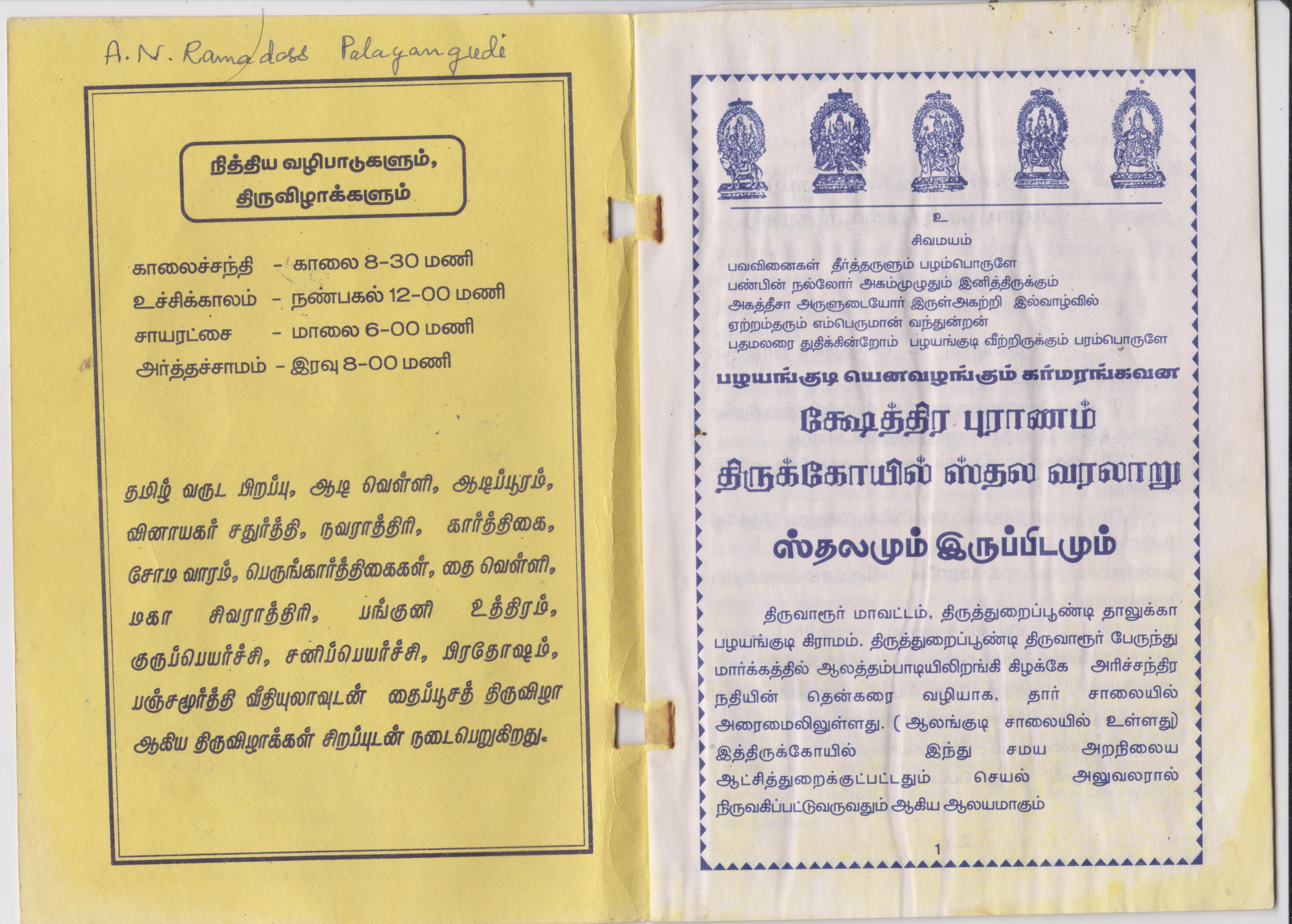 பழையங்குடி அகத்தீஸ்வர சுவாமி தள வரலாறு